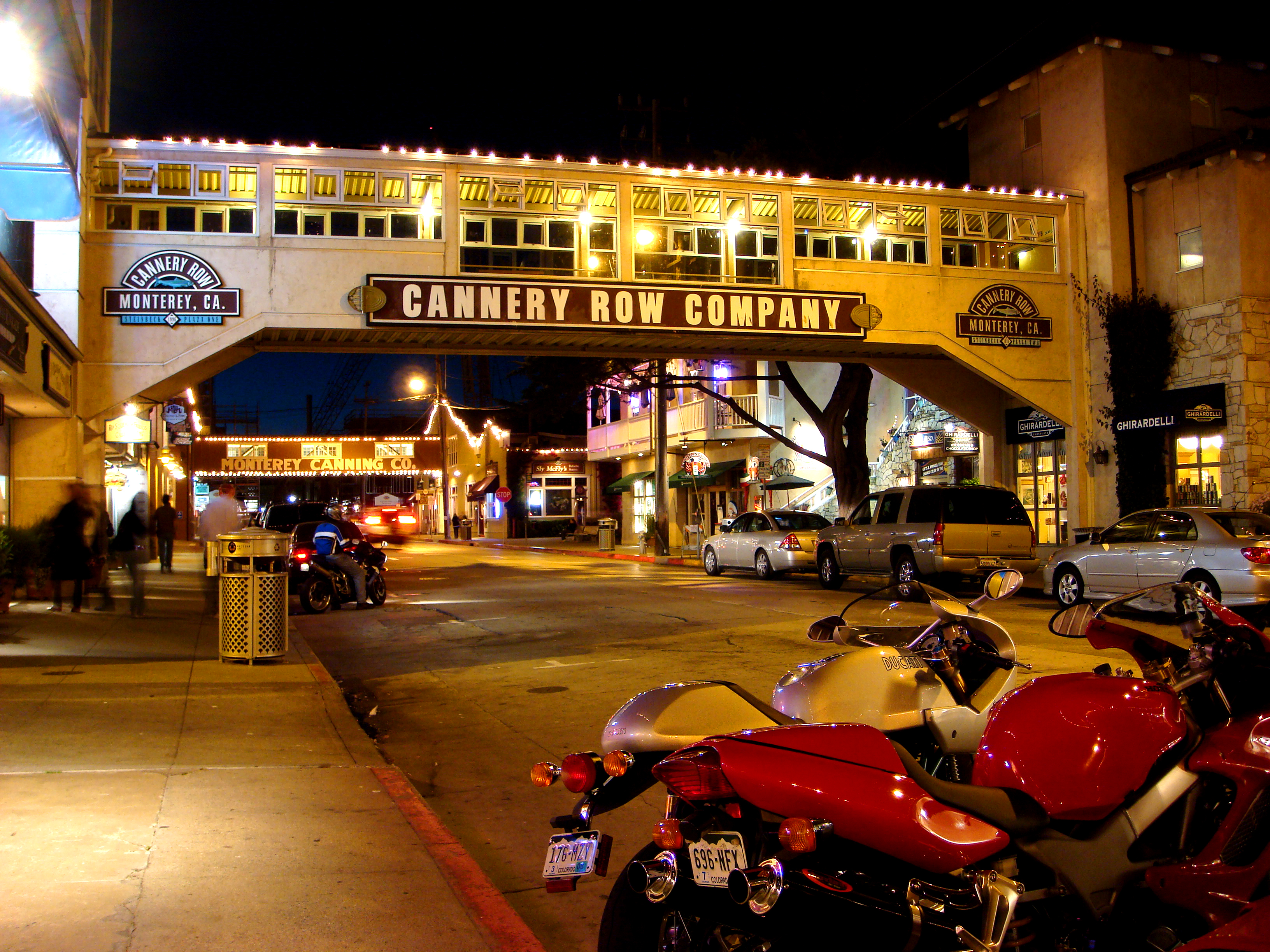 Cannery row at night